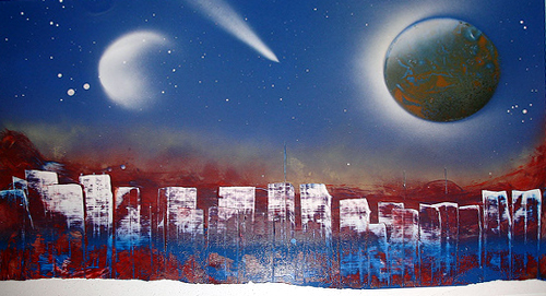 Category:Images of graffiti and unauthorised signage